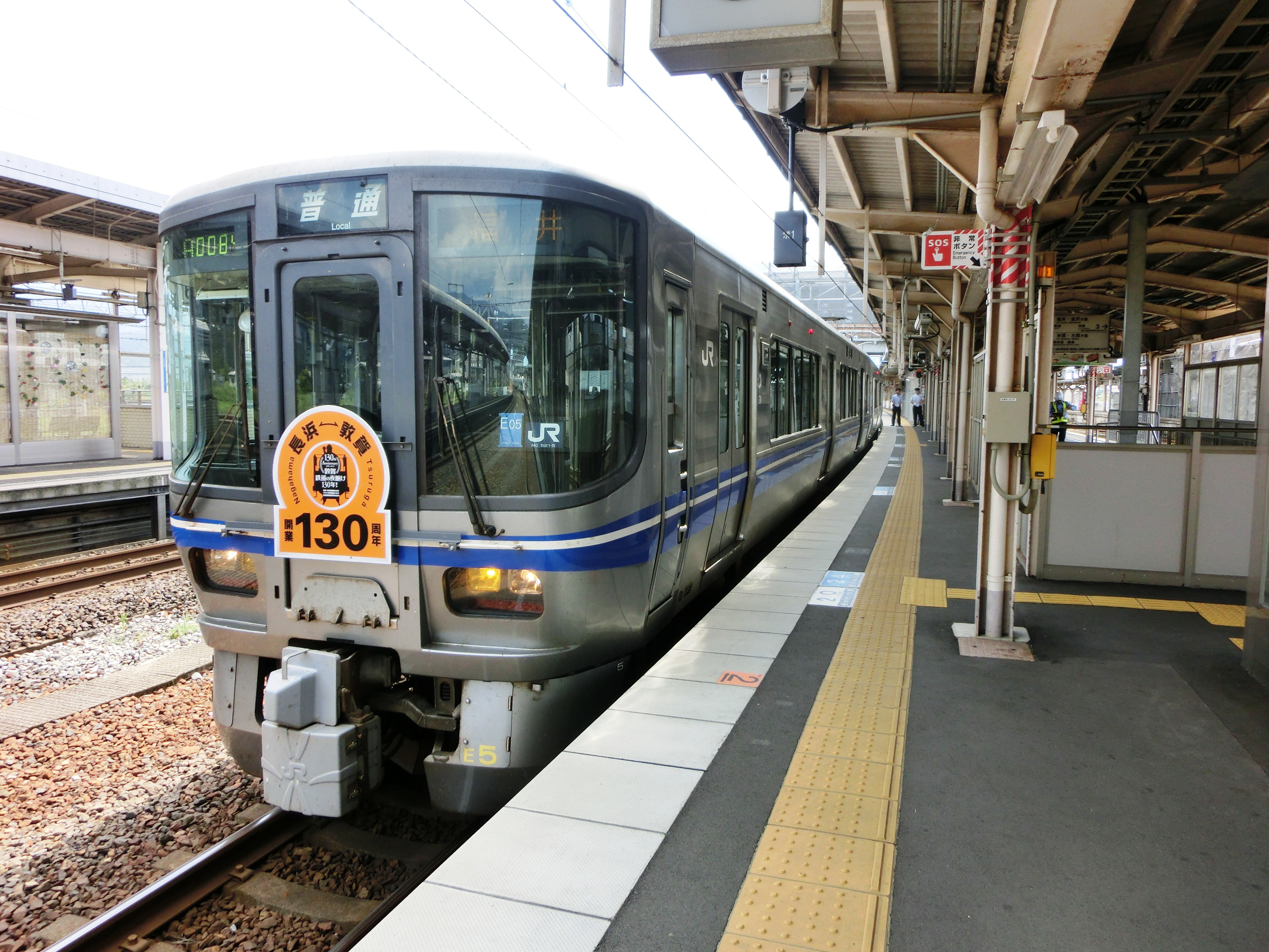 Headmark on the JRW521, Hokuriku-Main-Line's 130th anniversary celebration. Photo taken in Tsuruga-Station.